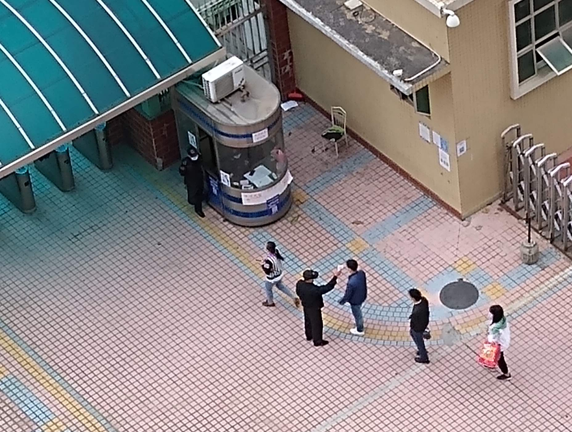 Workers having their temperatures taken as they enter an industrial park (安托山高科技工业园) in Shenzhen, China, amid the COVID-19 pandemic.